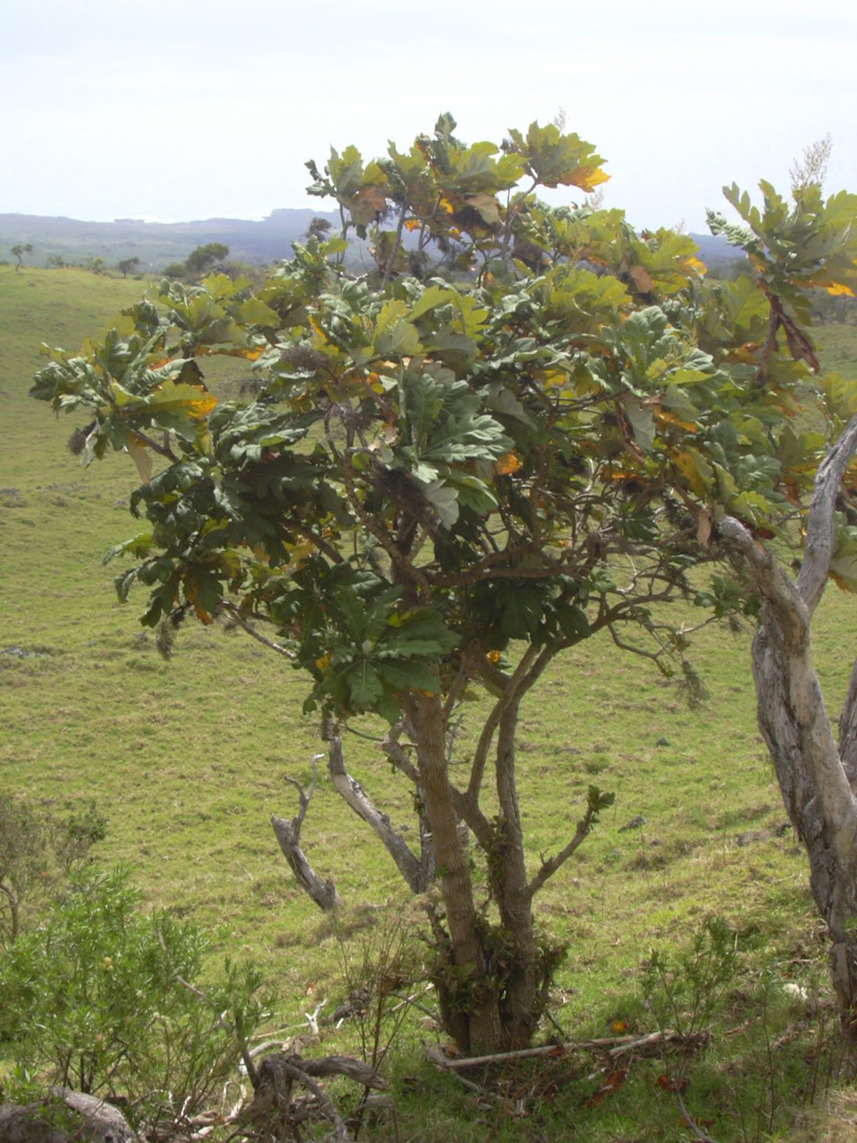 Bocconia frutescens (habit). Location: Maui, Auwahi